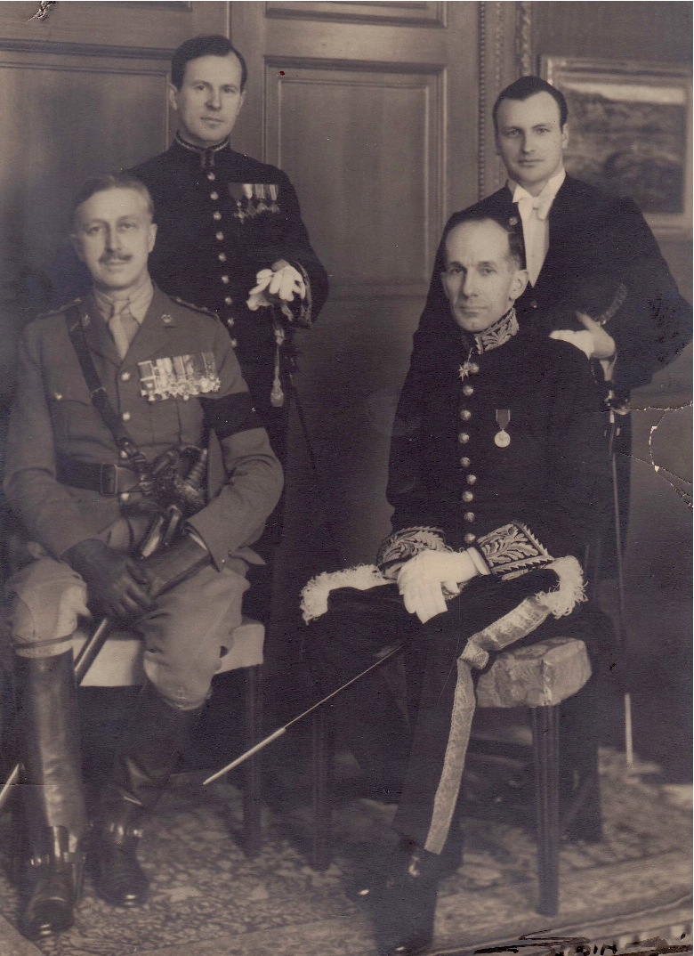 John Ross McLean (top right) with Canada's High Commissioner in London, Georges Vanier (later Governor General, bottom left), Vincent Massey (later Governor General, bottom right) and Lester B. (Mike) Pearson (later Prime Minister of Canada, top left), Canada House, London